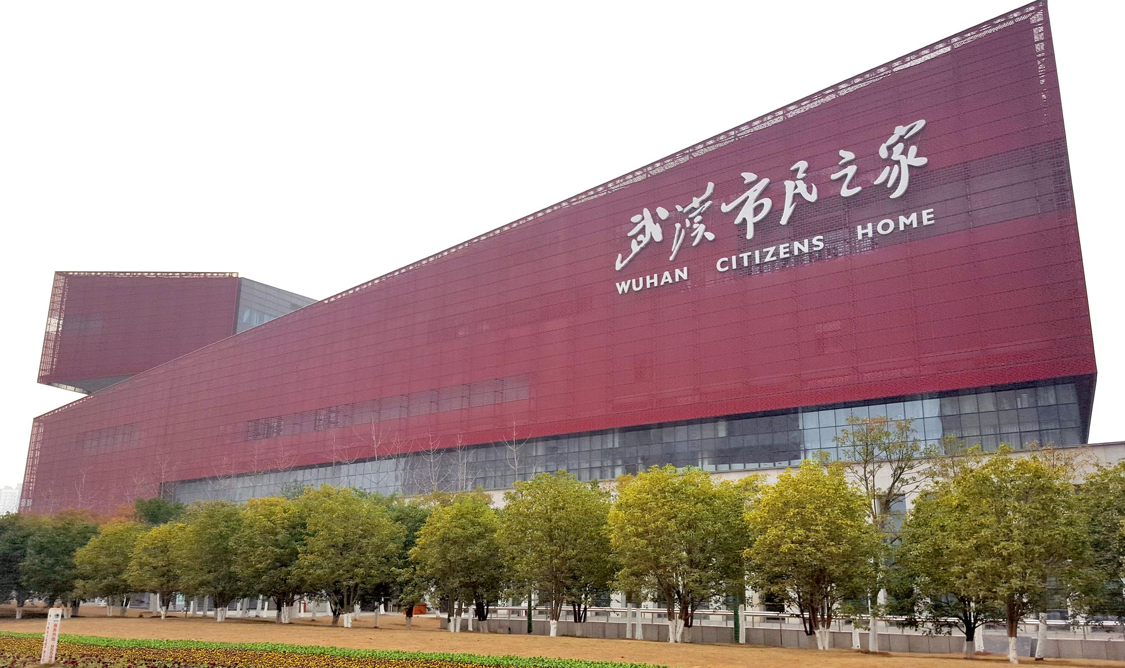 Wuhan Citizens Home